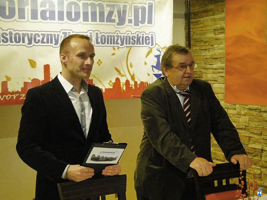 Serwis Historyczny Ziemi Łomżyńskiej. Publisher magazine - Mariusz Patalan, Editor in Chief - Henry Sierzputowski